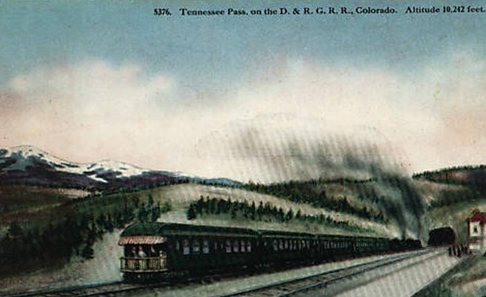 Postcard depiction of a Denver and Rio Grande Western train at Tennessee Pass, Colorado.